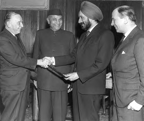 Left to right: Sir Stewart Duke‑Elder, J.R. Mehta, Indian Ambassador to Britain, presenting the Gold Medal to S.S. Hayreh, and Professor Norman Ashton